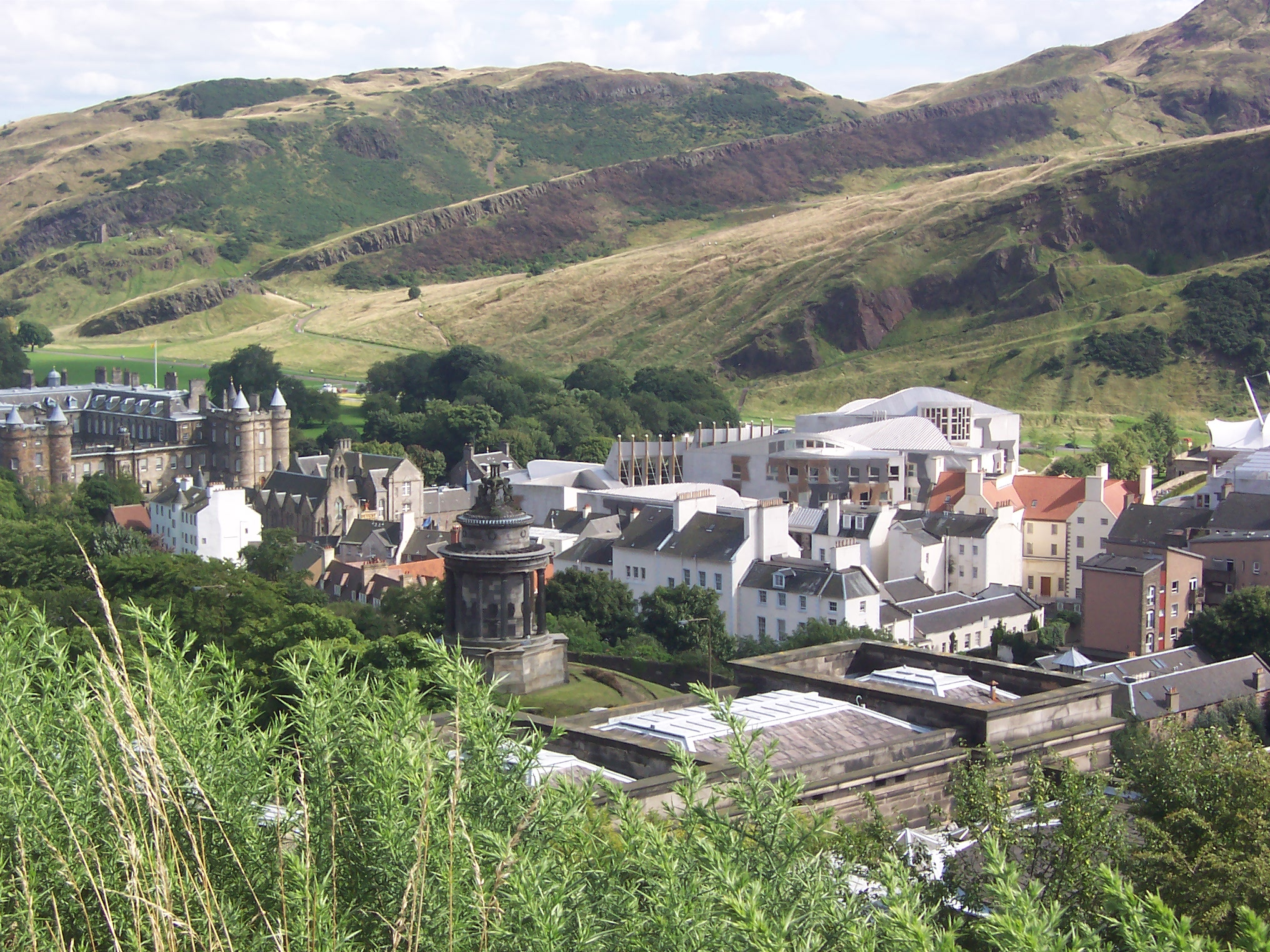 Holyrood, Edinburgh from Calton Hill.